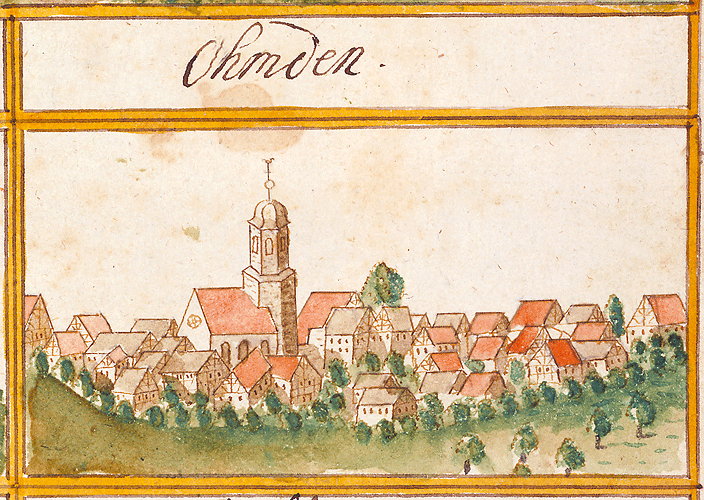 View of Ohmden from the forest register books created by Andreas Kieser